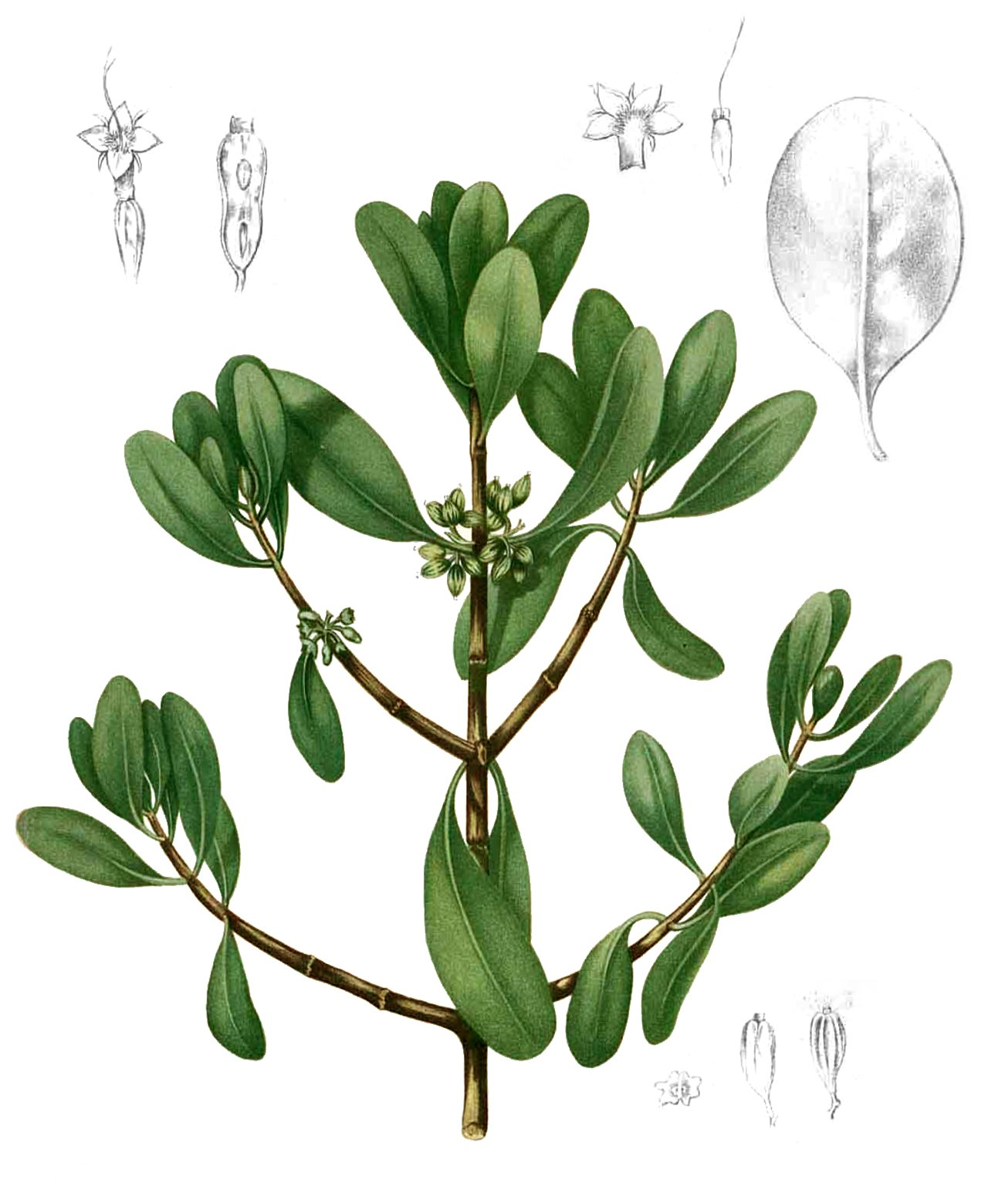 Plate from book